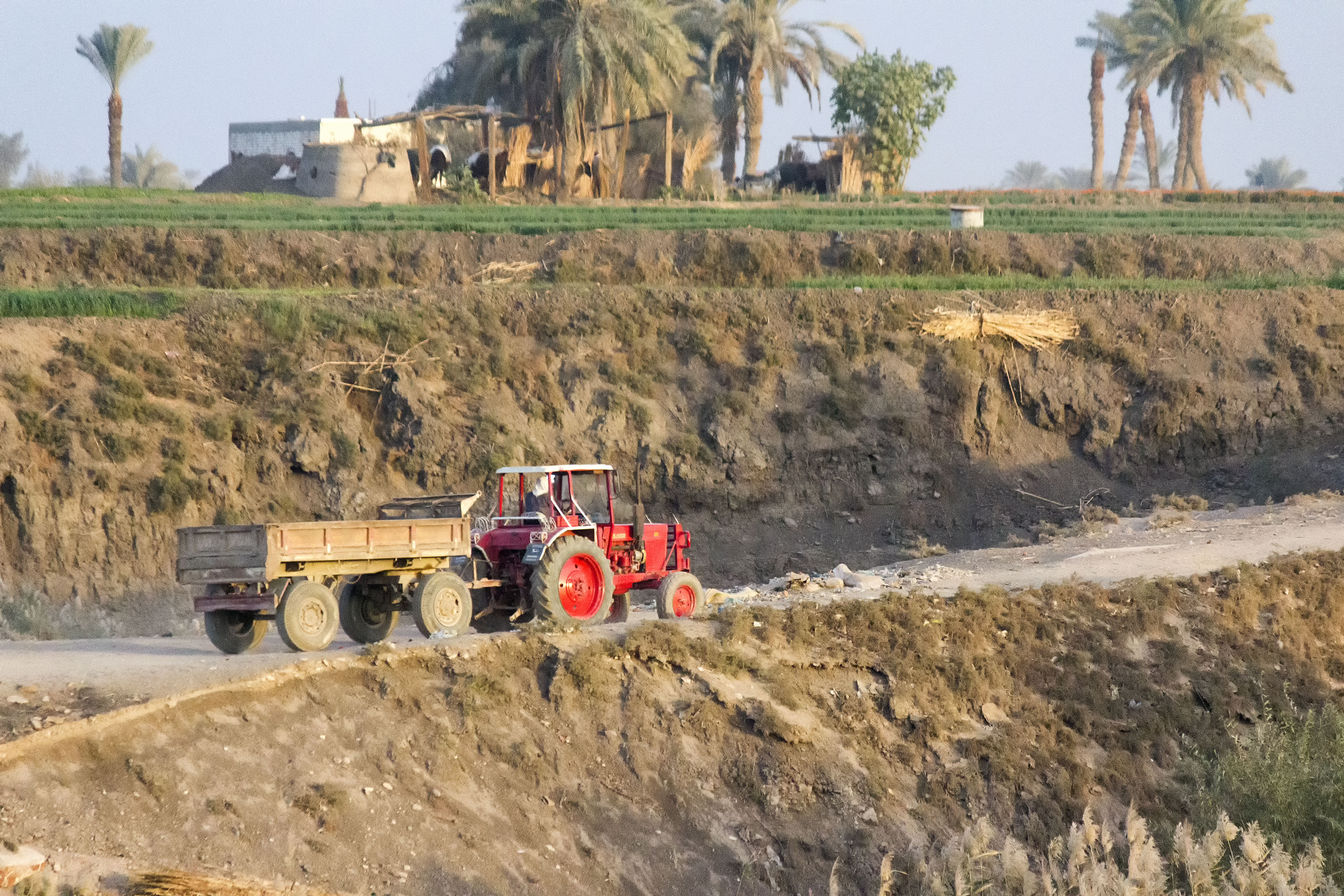 A Farmer Riding on a Red Tractor - Fayoum - Egypt